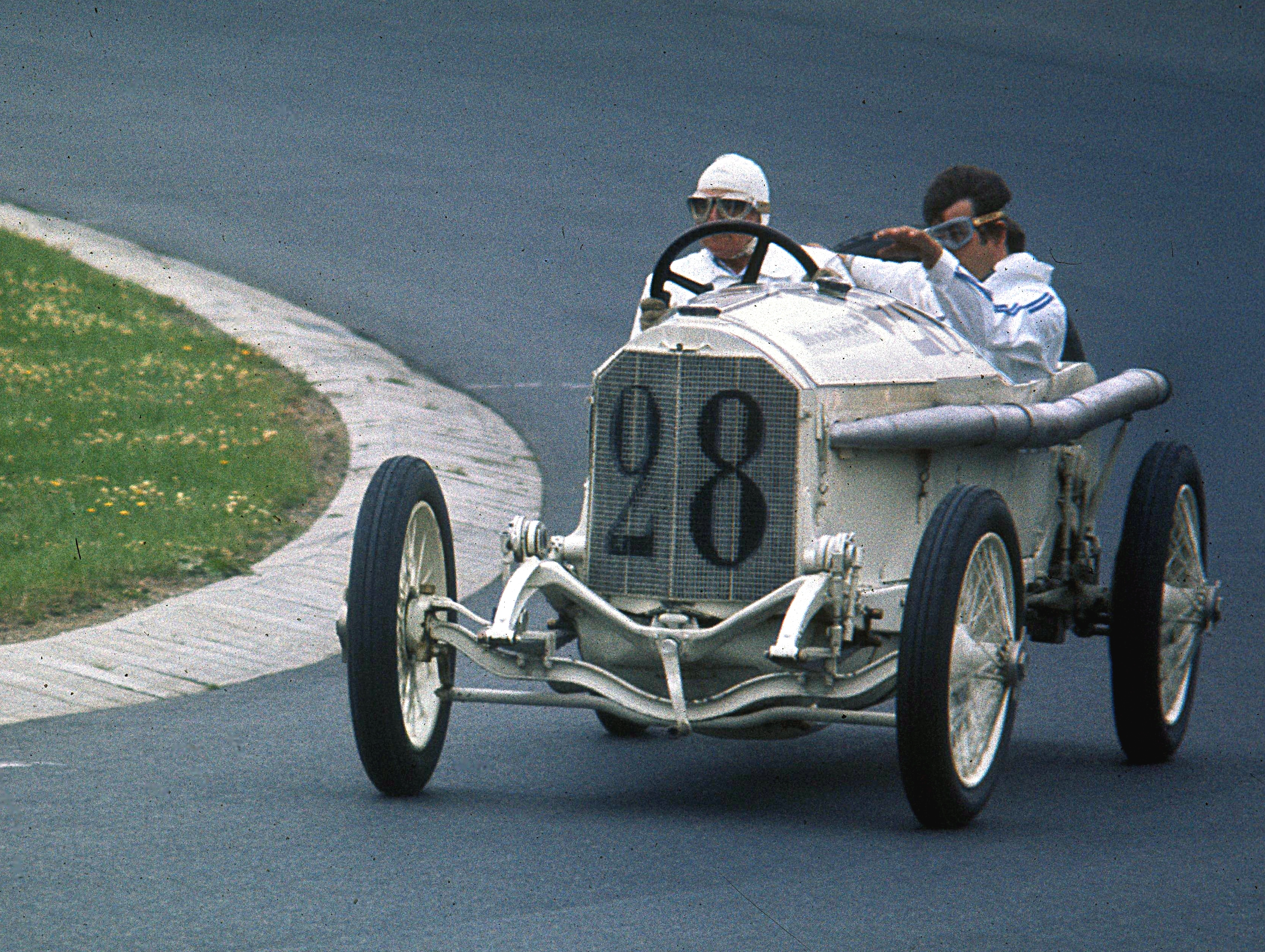 Mercedes GP car from 1914 at a slow demonstration lap on the Nürburgring. This type of car won the GP of France in 1914 (triple victory of Christian Lautenschlager, Louis Wagner and Otto Salzer)